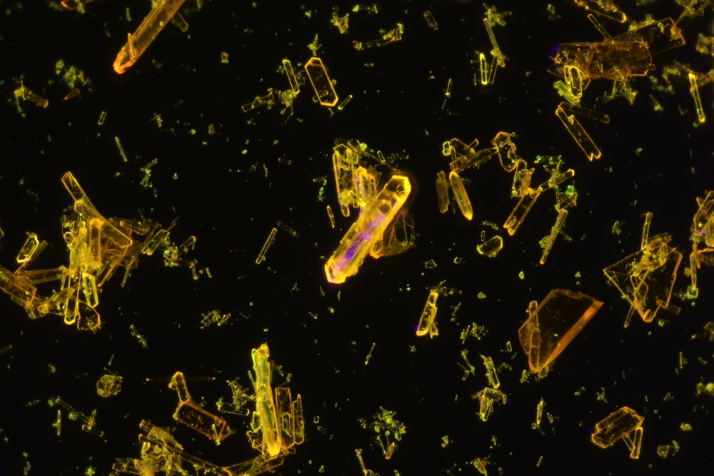 9,10-Bis(phenylethynyl)anthracene: Crystals fluoresce in blacklight orange